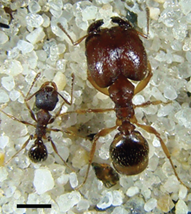 Mature Pheidole pilifera minor (left) and major (right) workers. Scale bar: 1 mm.